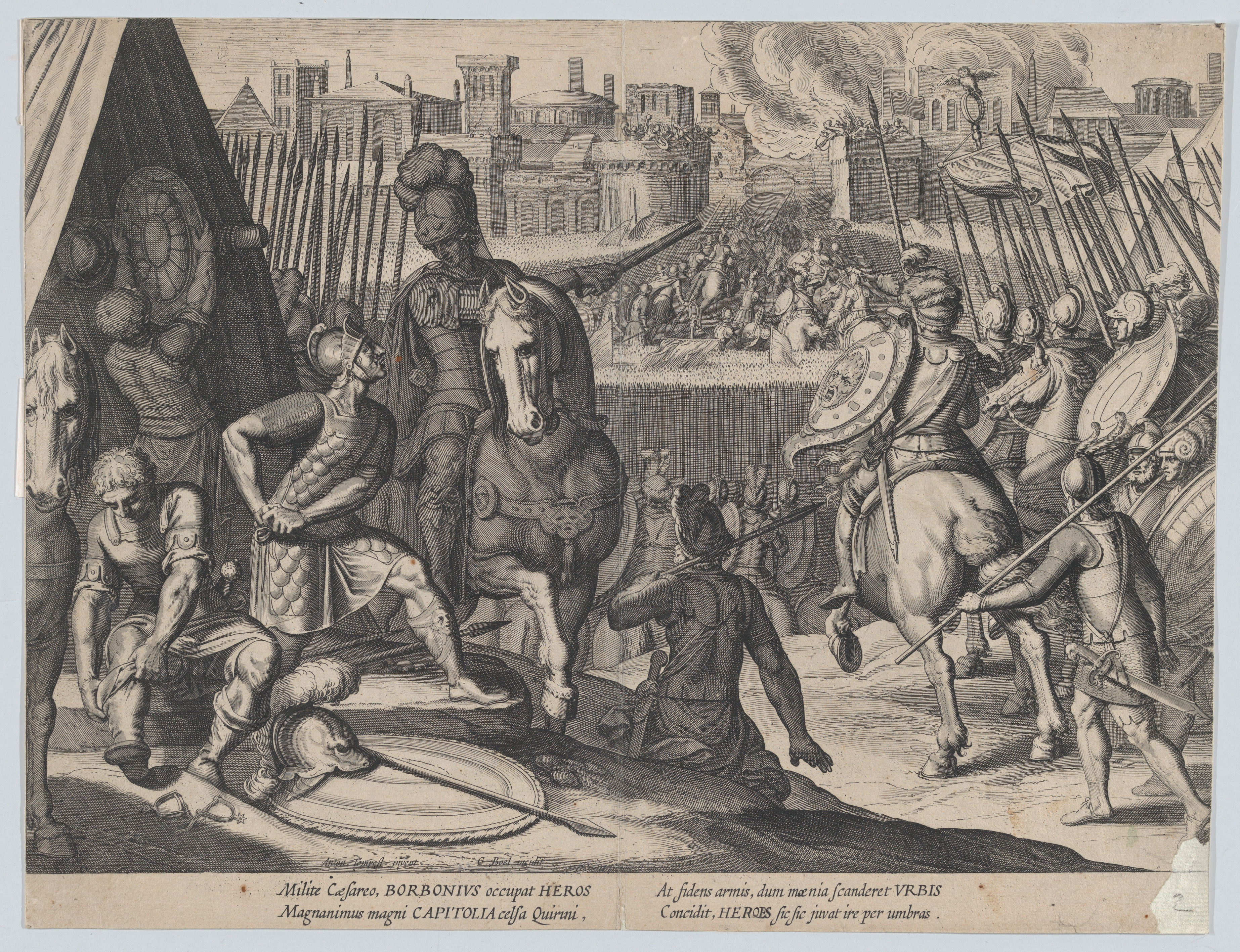 Saco de Roma (1527). Grabado de Cornelis Boel sobre dibujo de Antonio Tempesta para "La vie de l'Empereur Charles V, en tres-belles tailles-douces, gravées sur les dessins du celébre A. Tempeste, par deux des plus habiles Maitres J. de Gein & C. Boel", Leiden, Pieter van der Aa, 1614. The Metropolitan Museum